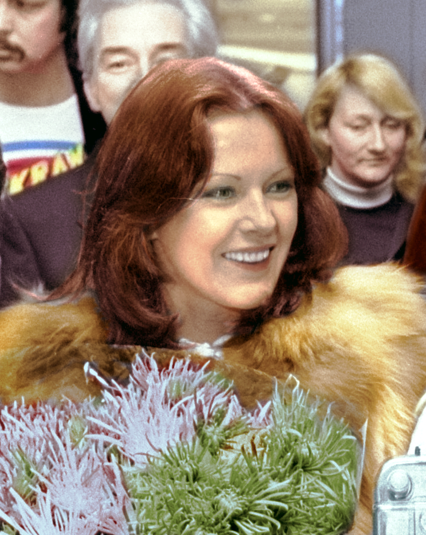 Colourized version of Anni-Frid Lyngstad in Schiphol, 1976